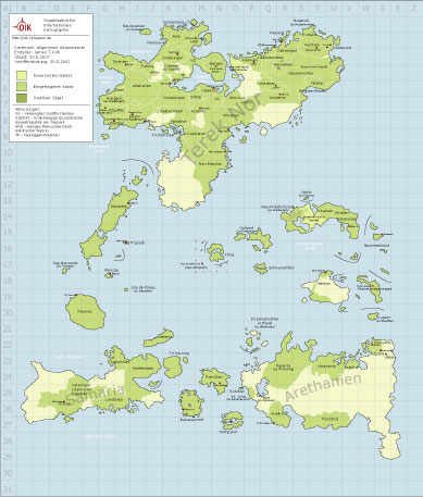 small version of the OIK micronational map